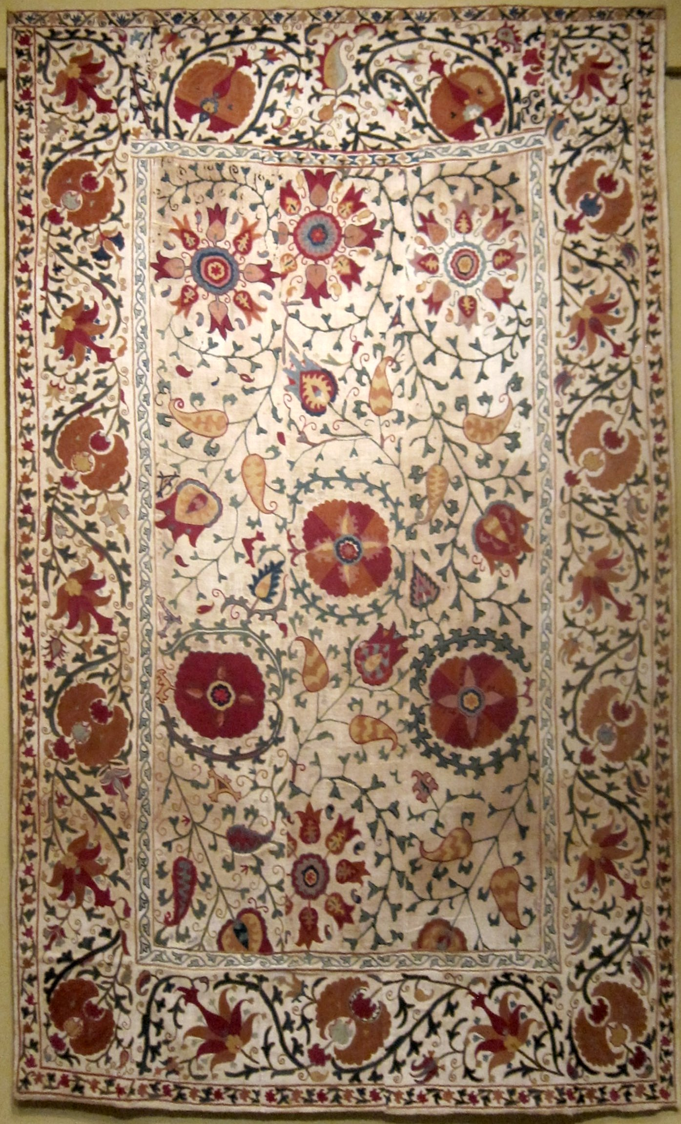 Embroidered (suzani) hanging or cover, central asia, late 19th or early 20th century, cotton, silk thread, Honolulu Academy of Arts (loan from the Doris Duke Foundation for Islamic Art)